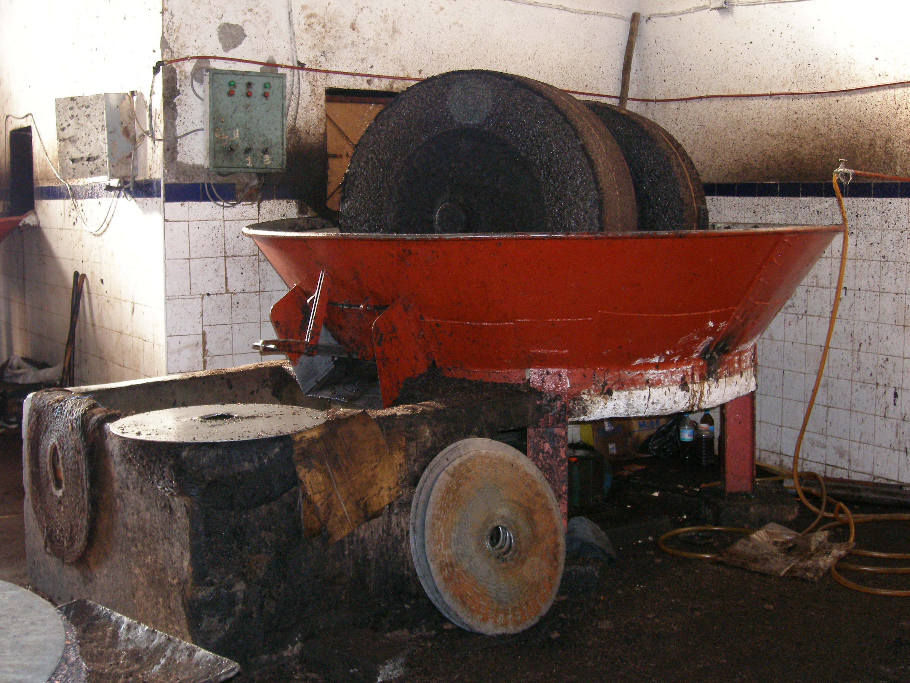 Olive oil factory near Marrakech.